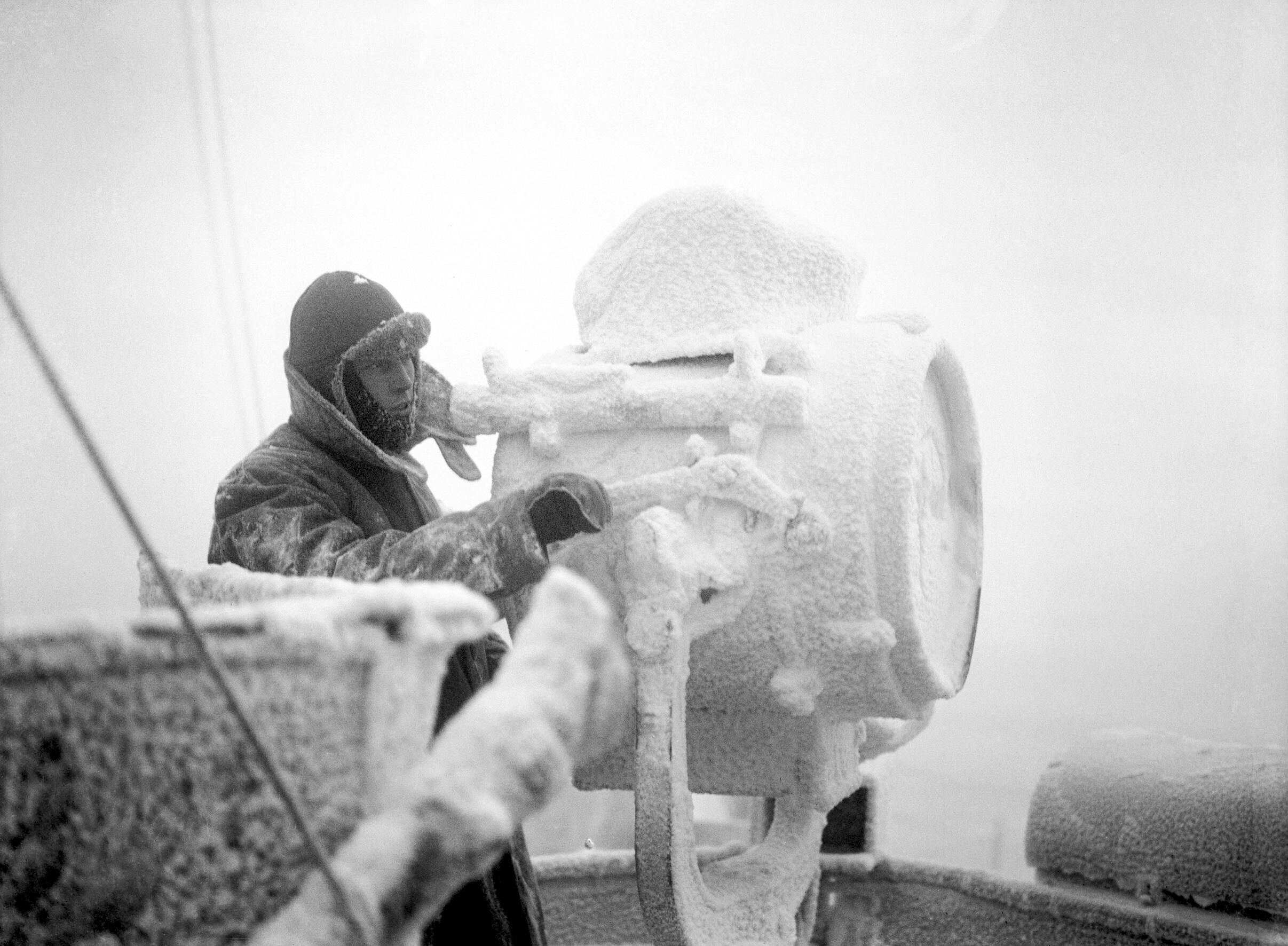 Ice forming on a 20-inch signal projector on the cruiser HMS SHEFFIELD whilst she is helping to escort an Arctic convoy to Russia